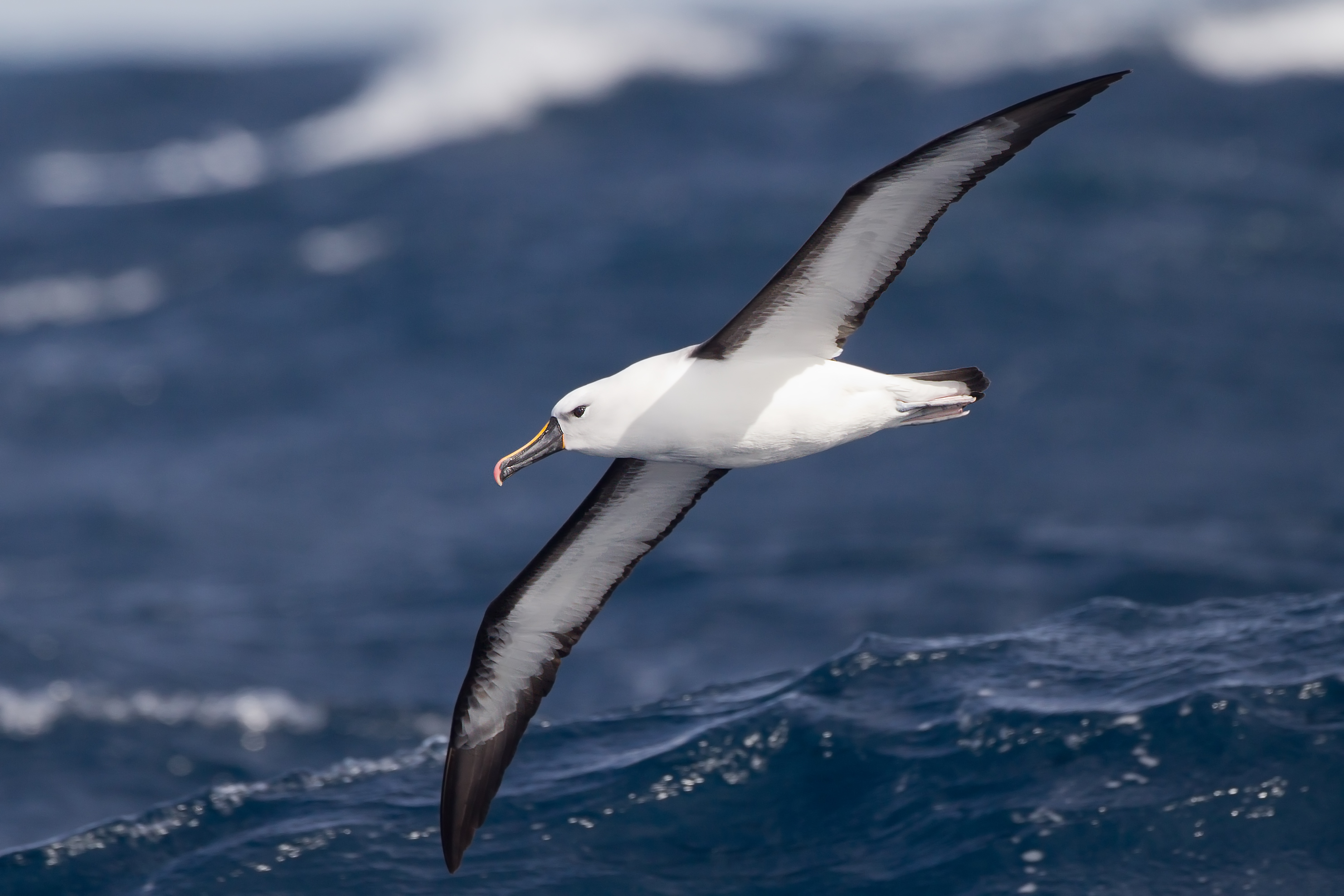 Indian Yellow-nosed Albatross (Thalassarche carteri), east of Port Stephens, New South Wales, Australia